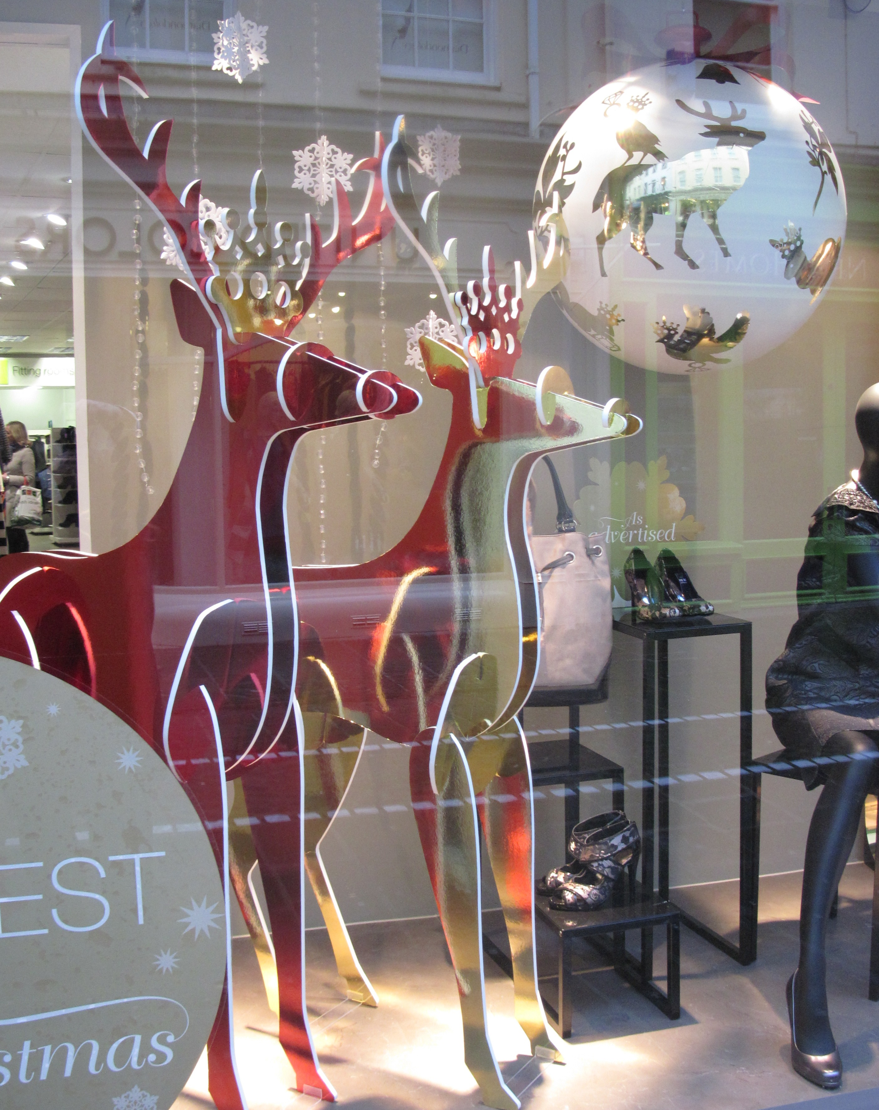 2012 Christmas window display in town shop, Saint Helier, Jersey